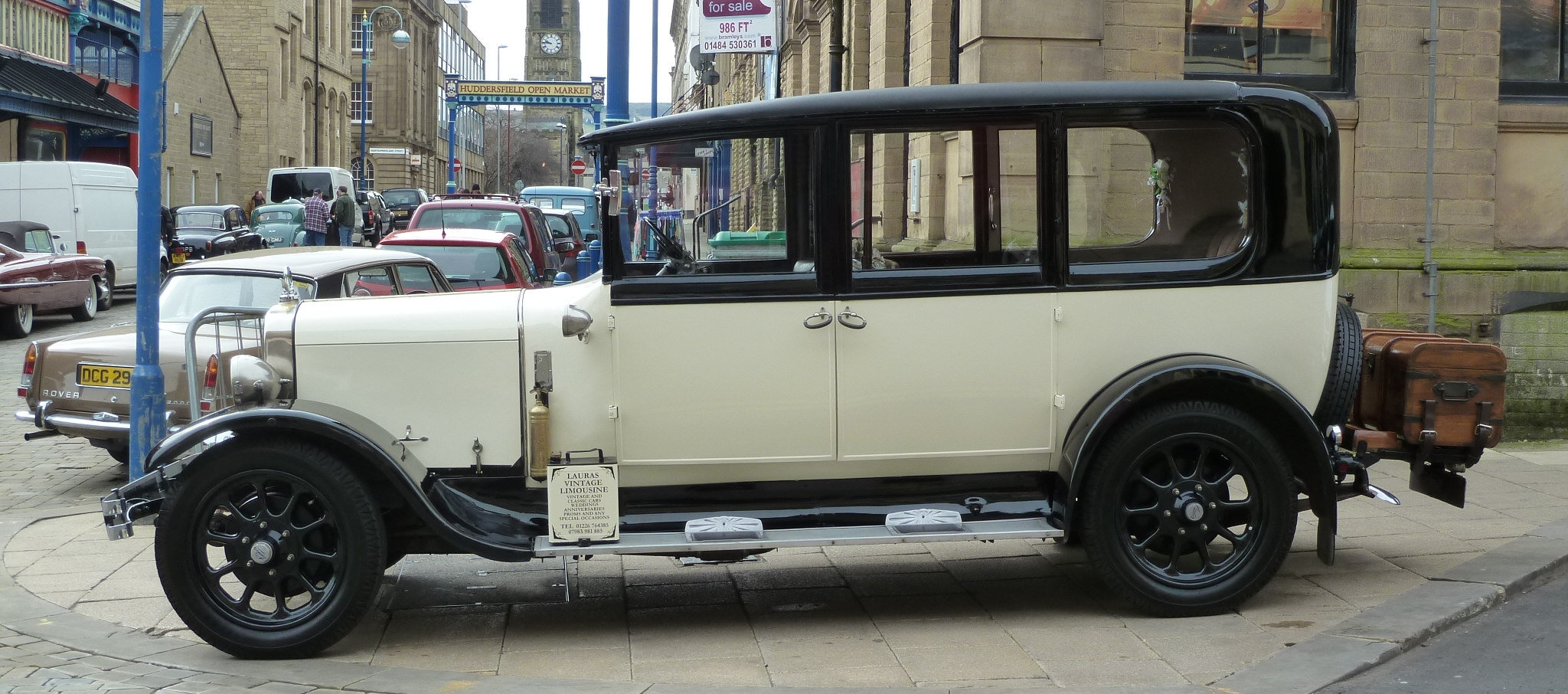 1926 Austin Mayfair at Huddersfield